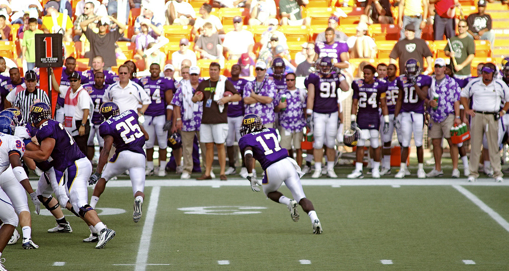 Boise State University vs East Carolina University - Dwayne Harris